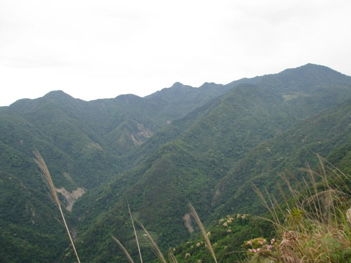 These are three mountains in Taichung, Taiwan.